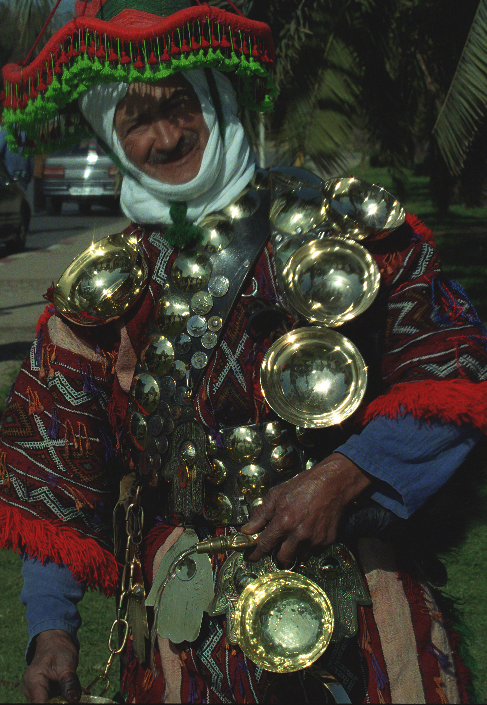 Street vendor in Rabat, Morocco